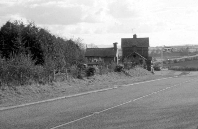 Tullymurry Station and Signal Box Approaching Tullymurry Station and Signal Box from Downpatrick. At the time the photo was made, the station was in use as a Texaco Petrol Station.